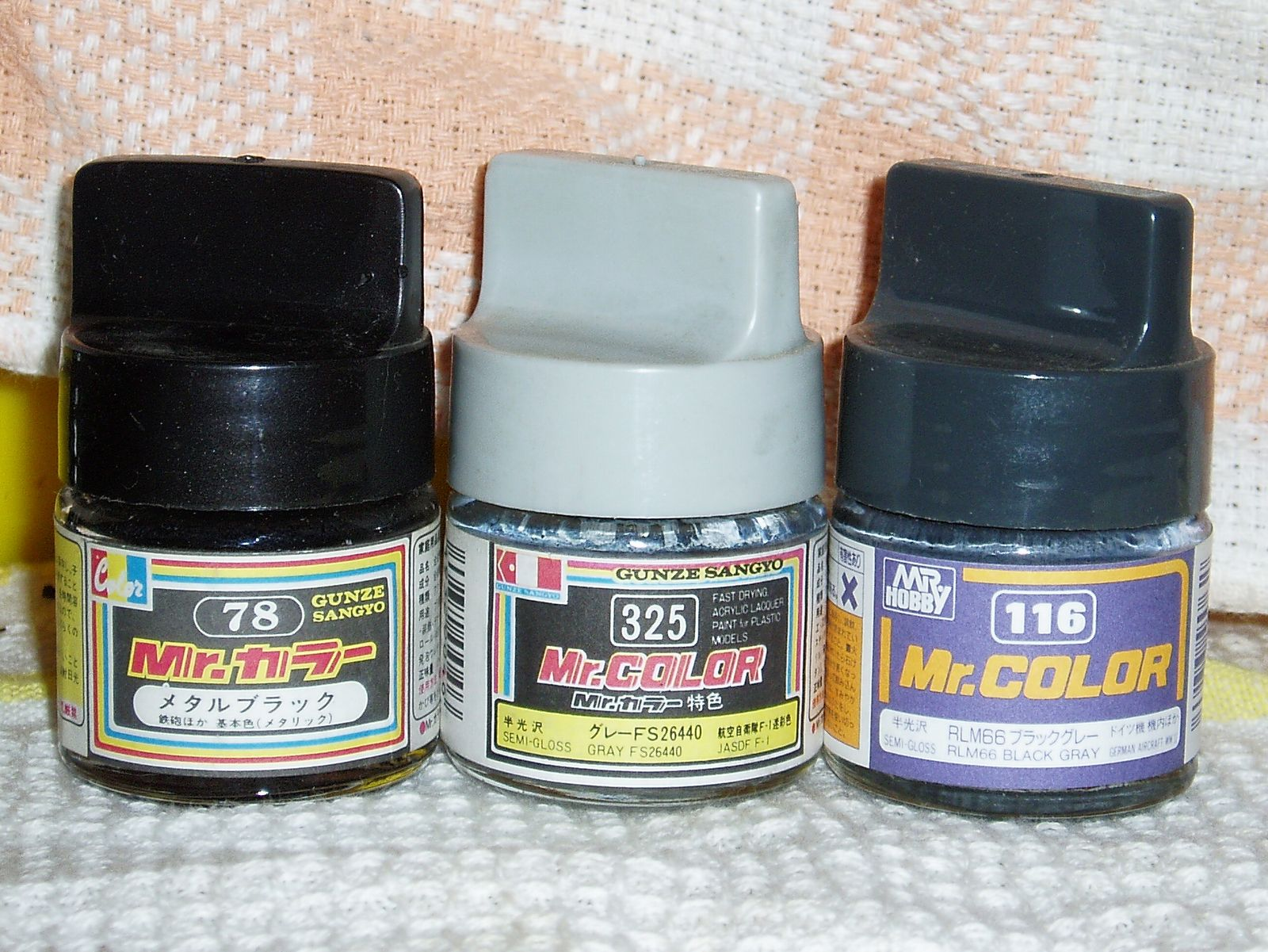 Hobby Paint.It is shape to pick up the lid easily.